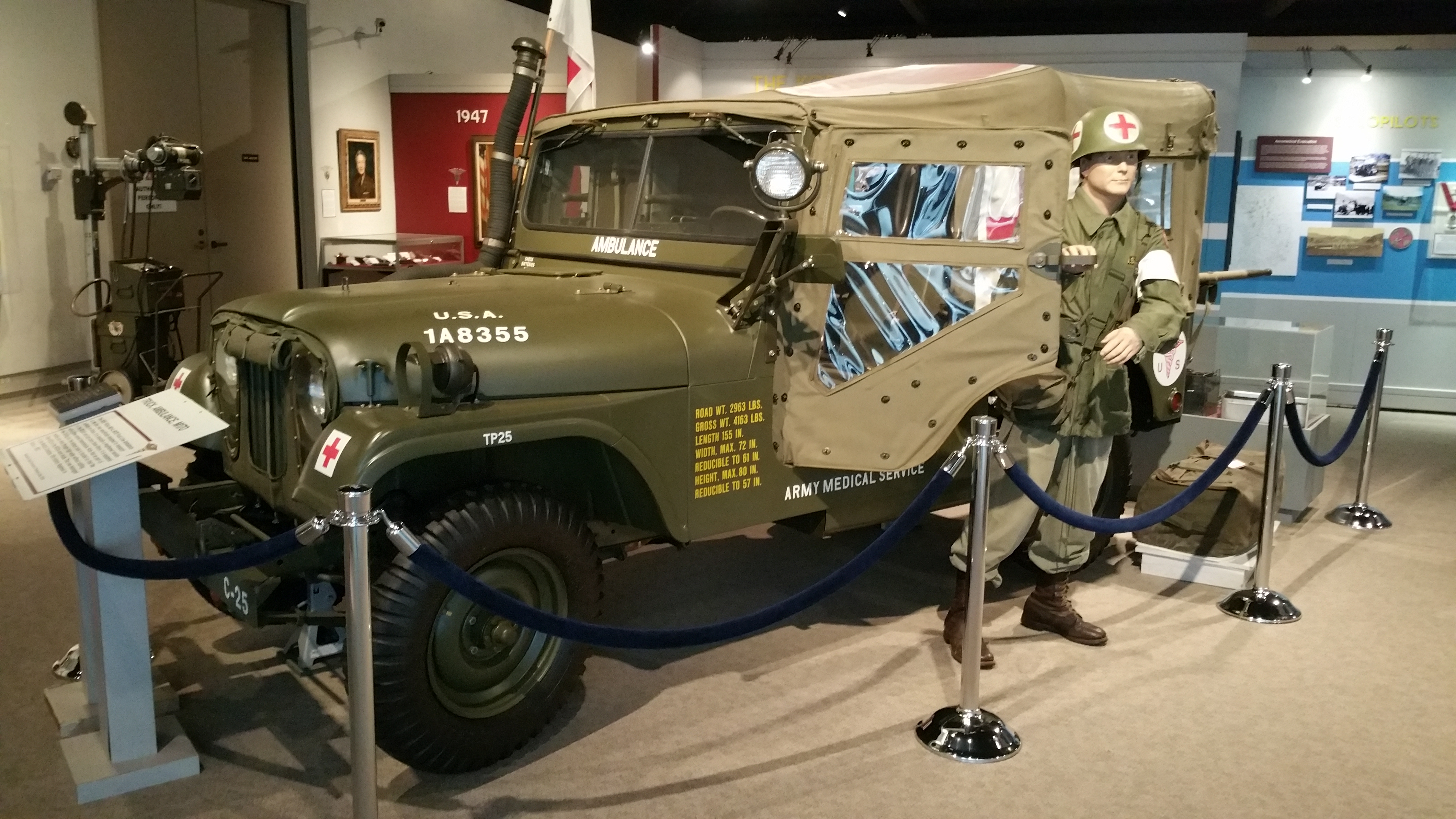 M170 ambulance at Fort Sam